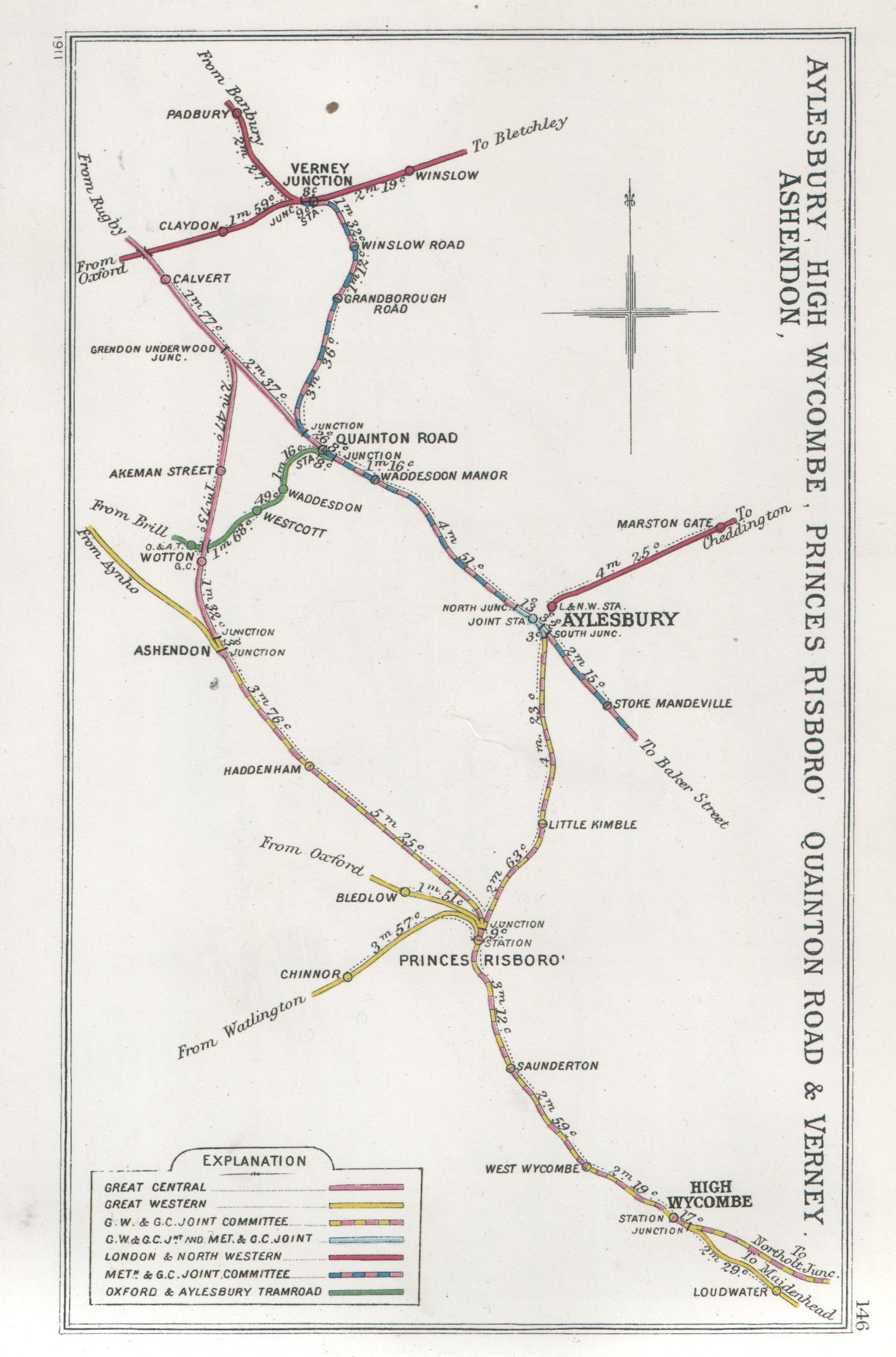 Aylesbury, High Wycombe, Princes Risborough, Quainton Road & Verney; Ashendon